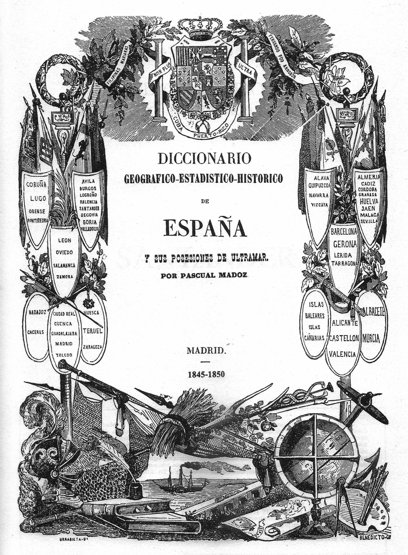 Frontispiece of "Geographical, Statistical and Historical Dictionary of Spain and its Overseas Possessions" (1845-1859) by Pascual Madoz.